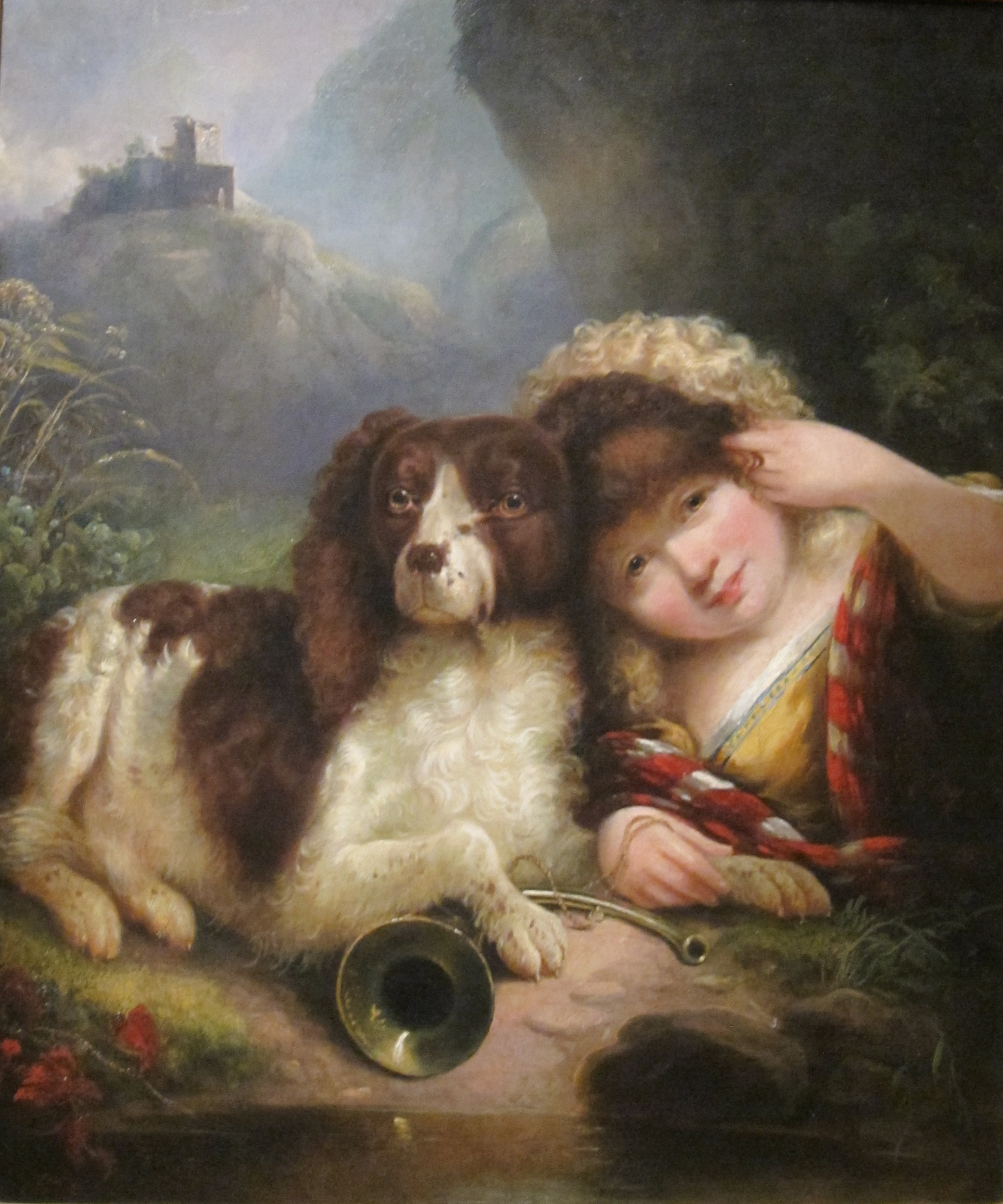 Little Bo-Peep